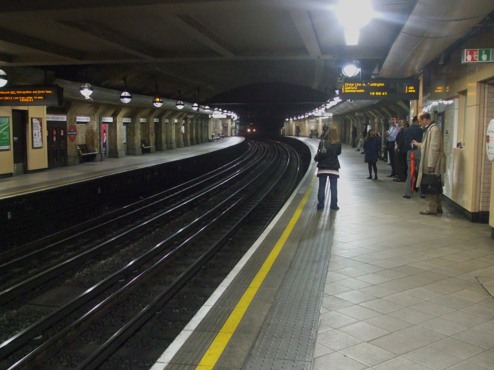 Great Portland Street tube station looking east